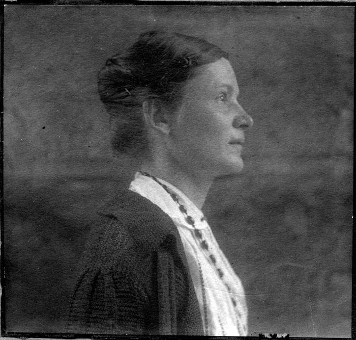 Description: Photograph of Sophie Gaudier Brzeska, writer and muse to the sculptor and Vorticist painter Henri Gaudier-Brzeska. Born in Poland. Sophie ended her life in a British asylum in 1925 after Henri's death in the First World War. This photograph was among her effects. Date: c.1910? Our Catalogue Reference: TS 17/1299 This image is from the collections of The National Archives. Feel free to share it within the spirit of the Commons. For high quality reproductions of any item from our collection please contact our image library.